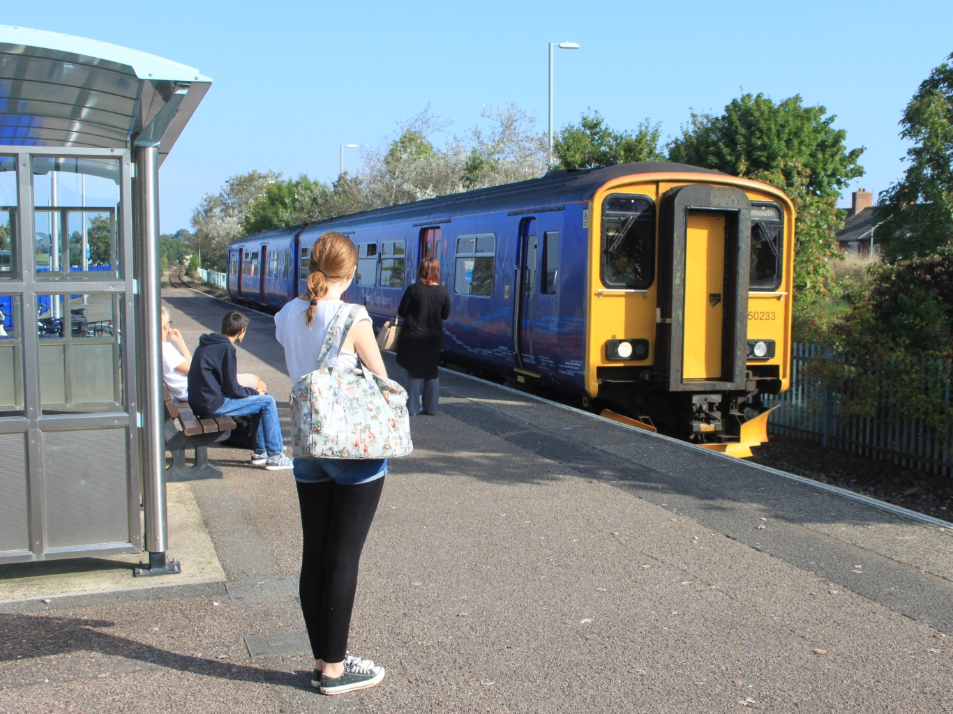 First Great Western 'Sprinter' 150233 arrives at Exmouth on the south coast having travelled right across Devon from Barnstaple.